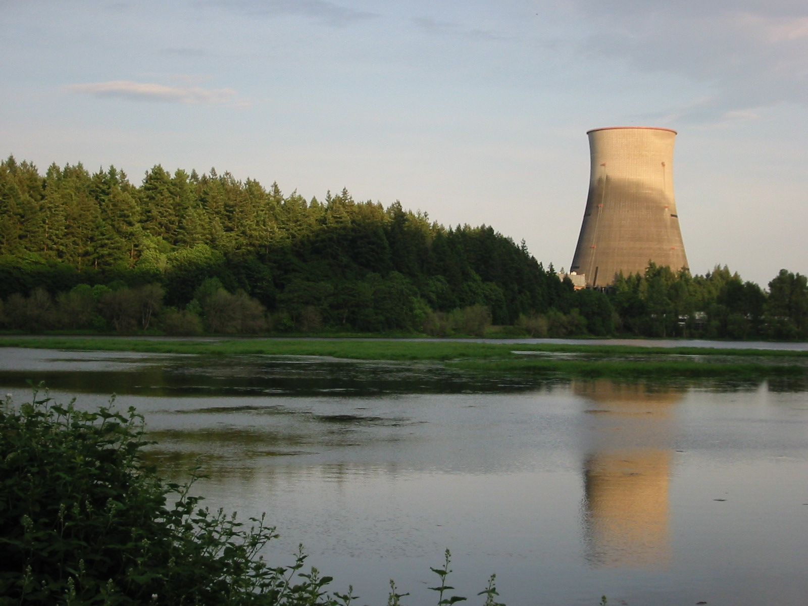 on the eve of its destruction